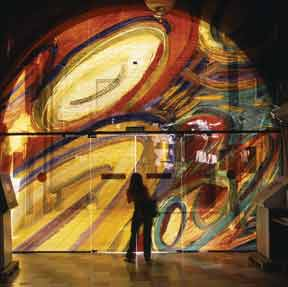 Vanishing Point, Venice Italy, 2001